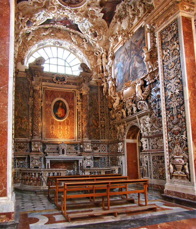 Church of the Gesu, Palermo, Sicily, Italy. Lateral chapel.